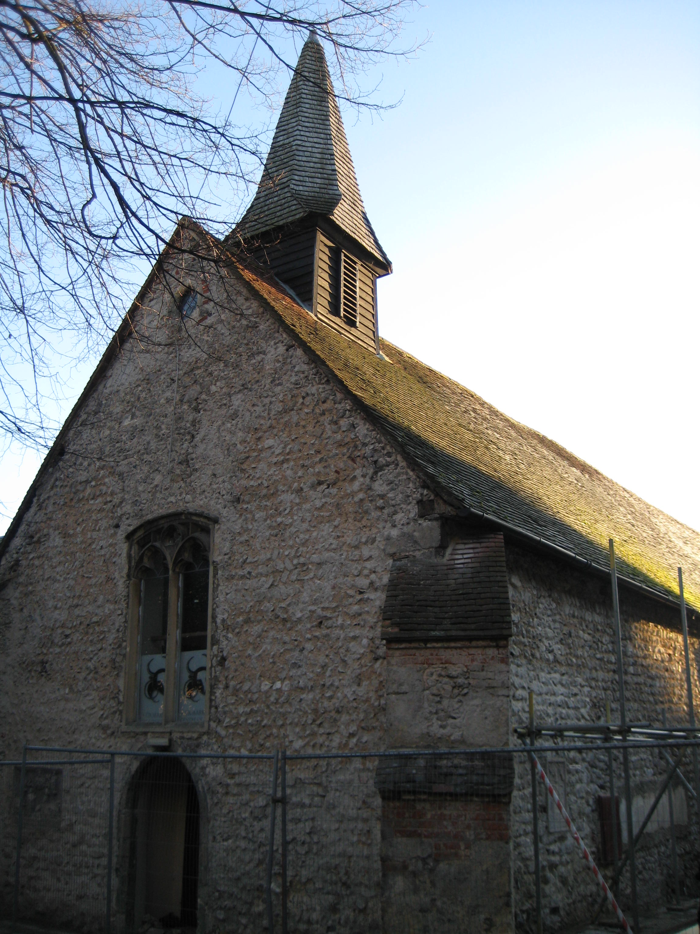 Oxmarket Centre of Arts. This arts centre is housed in the former church of St. Andrew-in-the-Oxmarket.